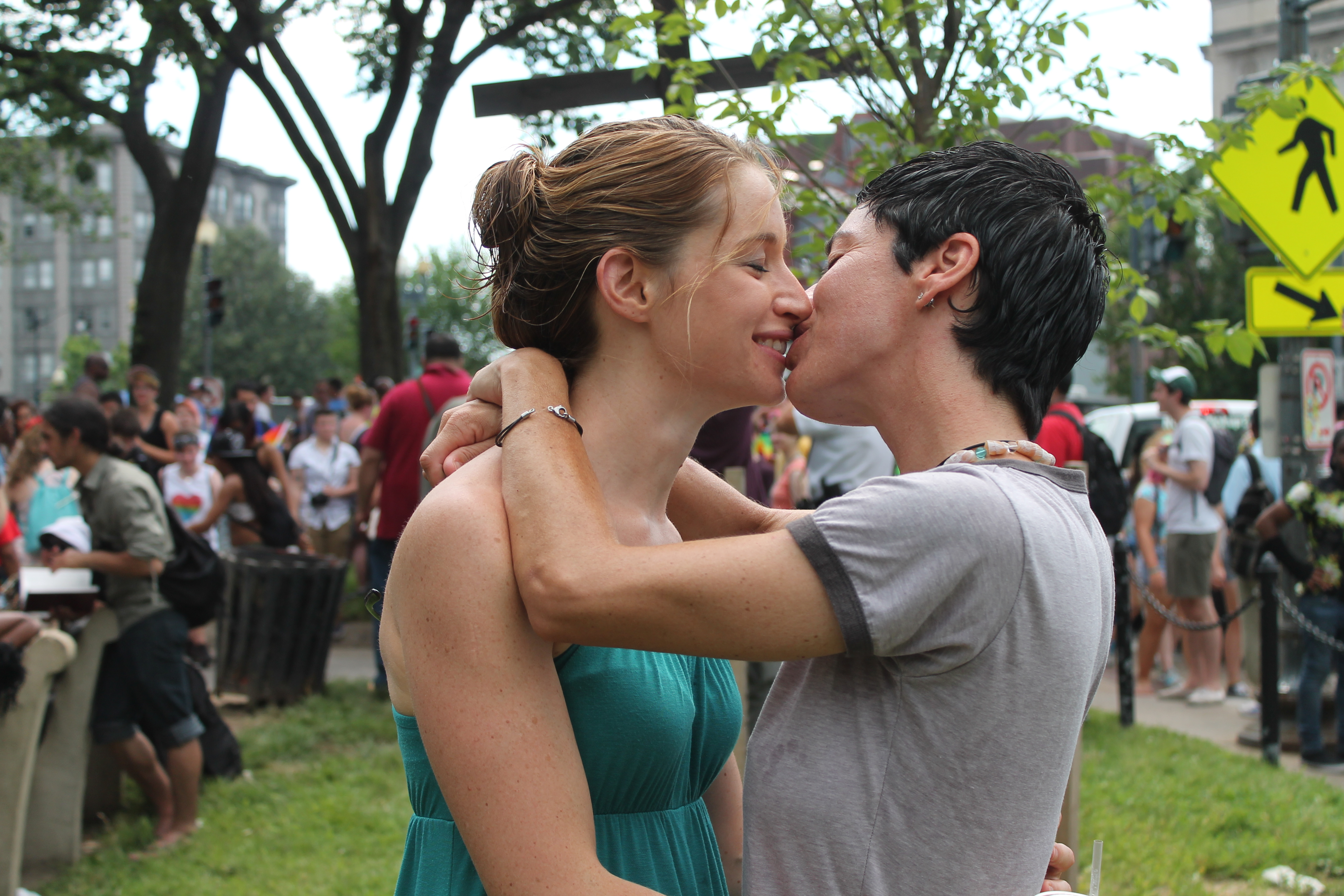 Before 40th Capital Pride Parade: Two Lesbians Kiss in front of Washington DC Evangelists Counter Demonstration at DuPont Circle, NW, Washington DC on Saturday afternoon, 13 June 2015 by Elvert Barnes Photography Washington DC Evangelists WashingtonDCEvangelists Elvert Barnes 40th CAPITAL PRIDE 2015 / Washington DC docu-project at 40CapitalPride2015